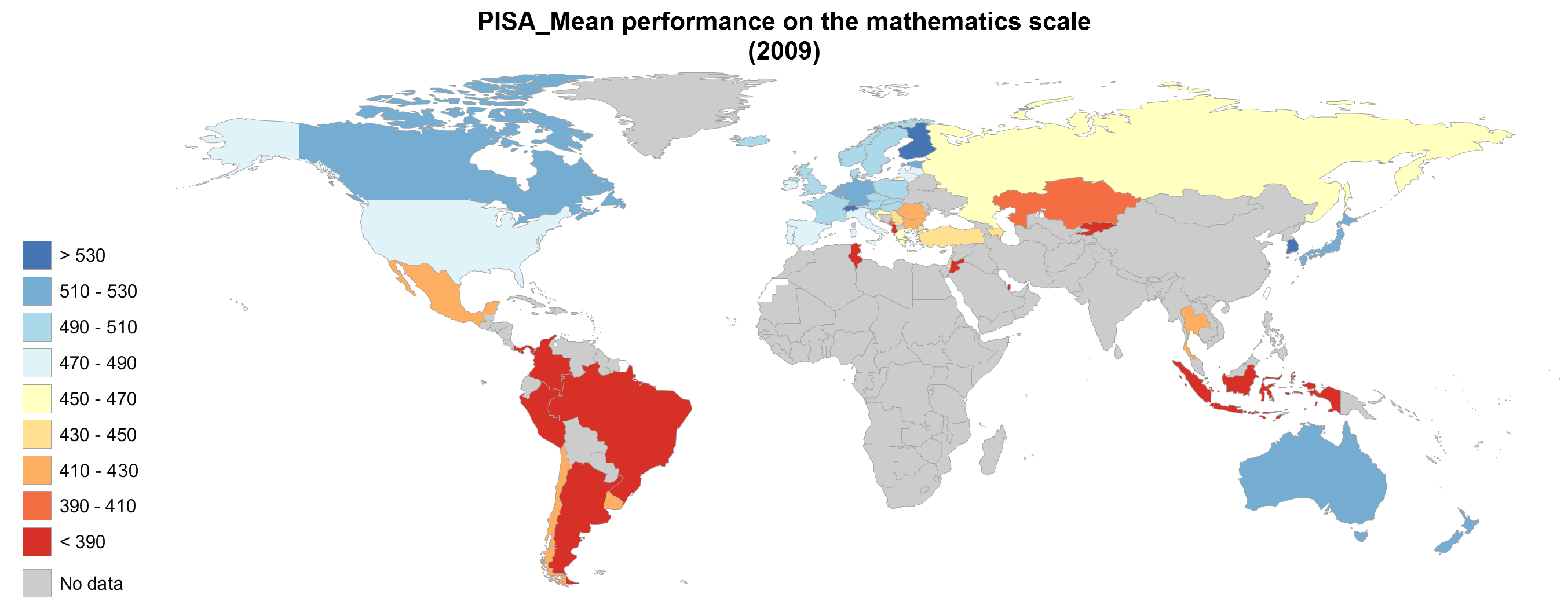 "Programme for International Student Assessment" 2009 average Mathematics scores